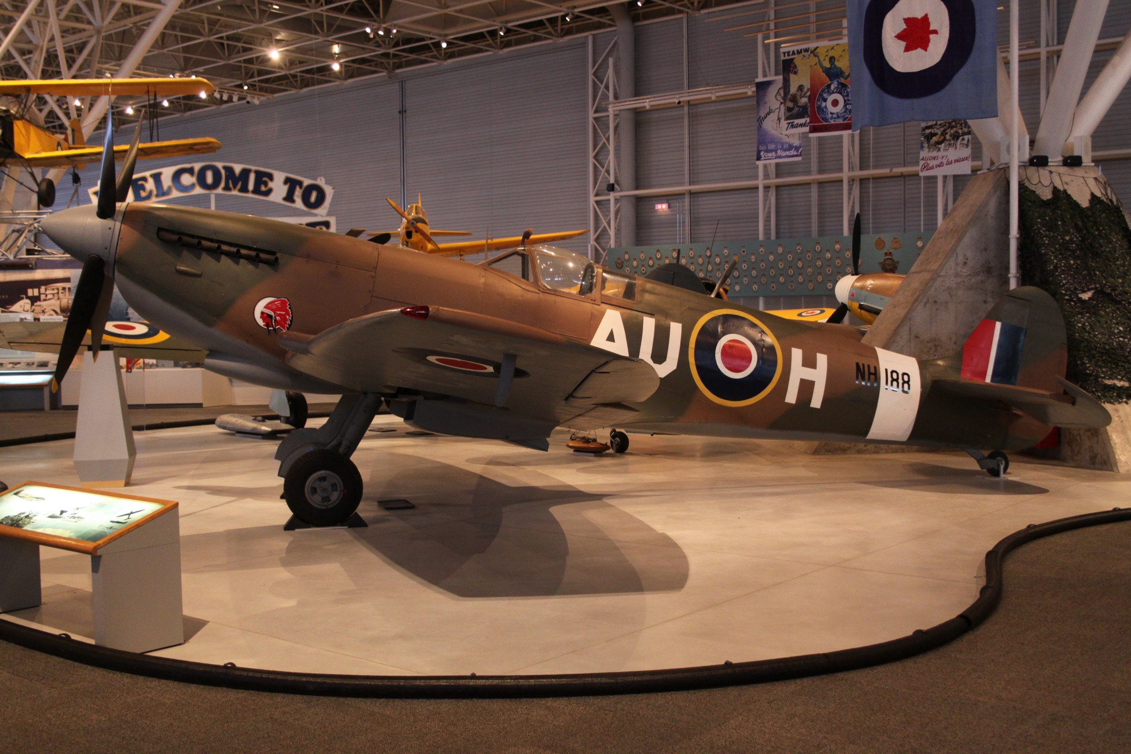 At Rockcliffe Canada Aviation Museum